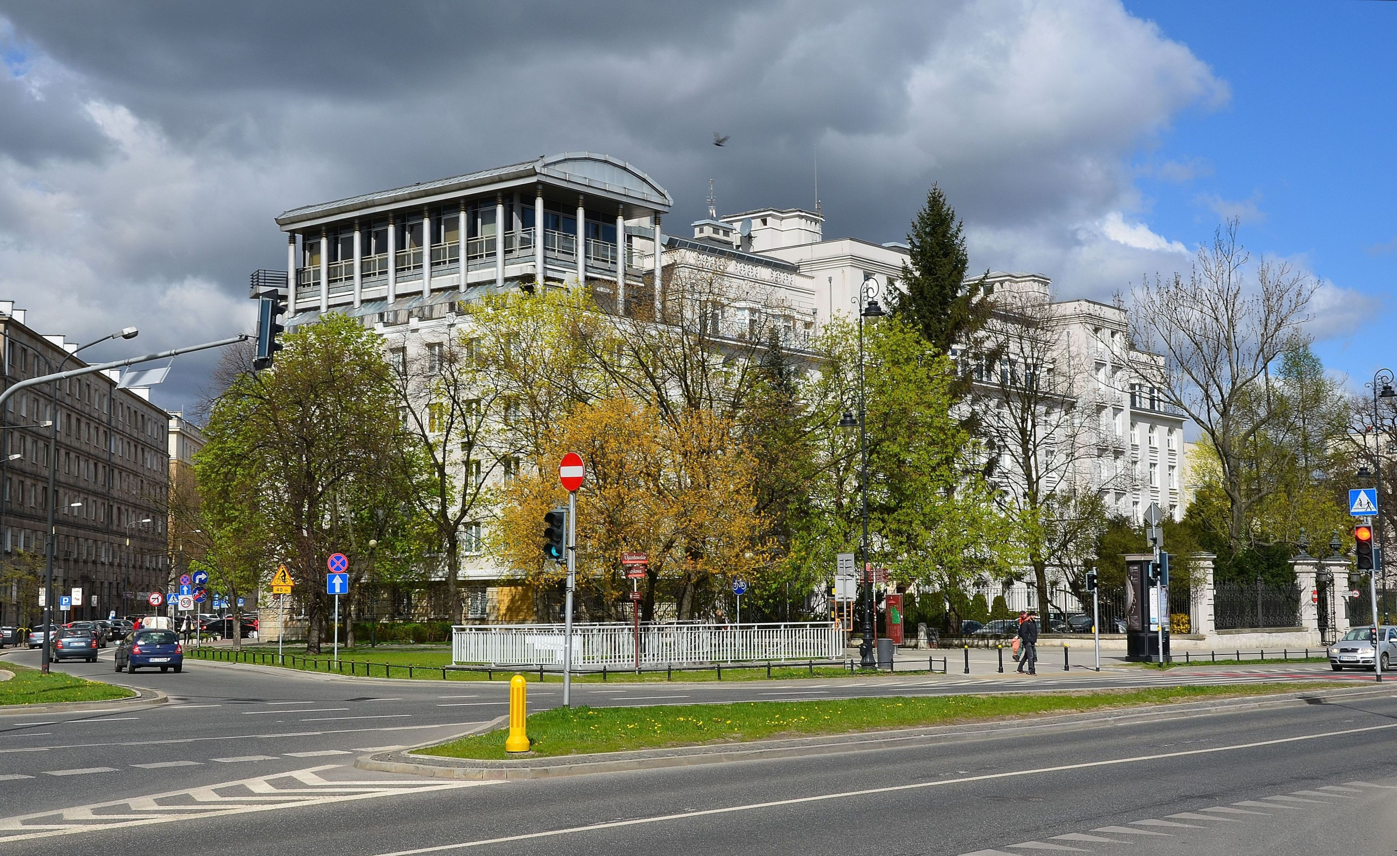 Building of the Ministry of Justice of 11 Ujazdowskie Avenues viewed from Na Rozdrożu Square